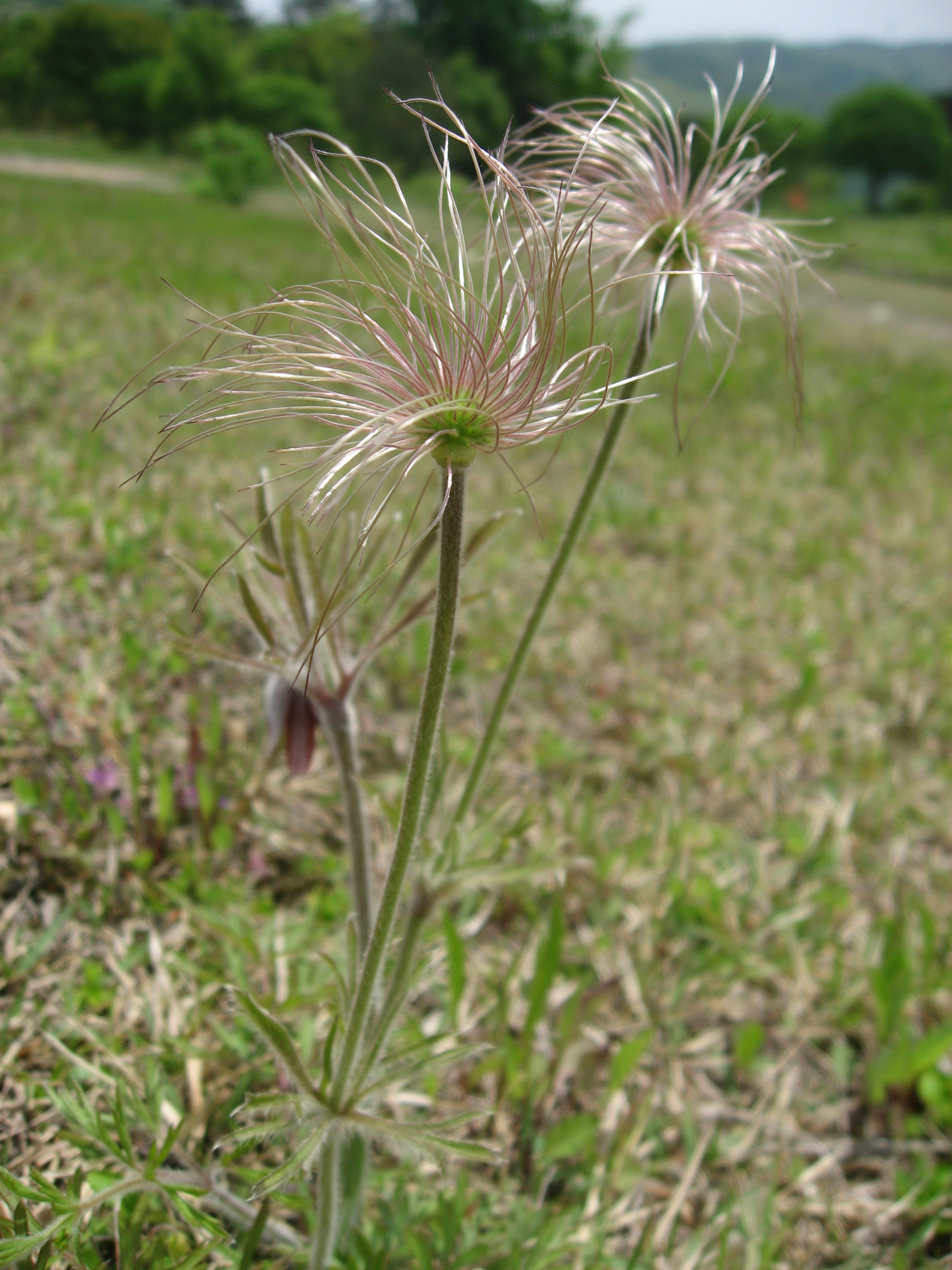 Pulsatilla cernua, Aizu area, Fukushima pref., Japan